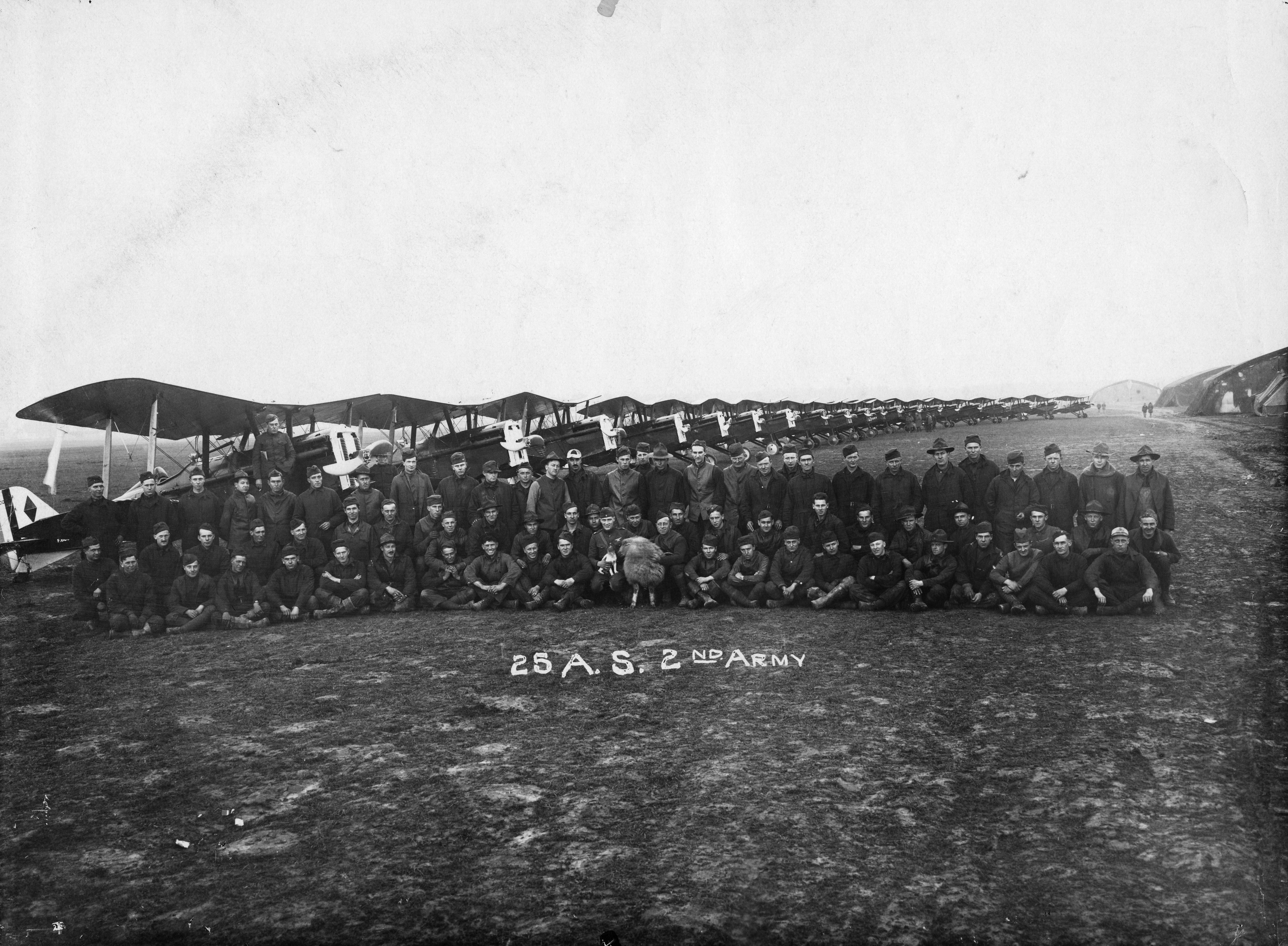 25th Aero Squadron 1918. Pictured are mostly the enlisted corps. The squadron commander, Reed G. Landis, is centered holding the officer corps mascot. The sheep is the enlisted corps mascot.